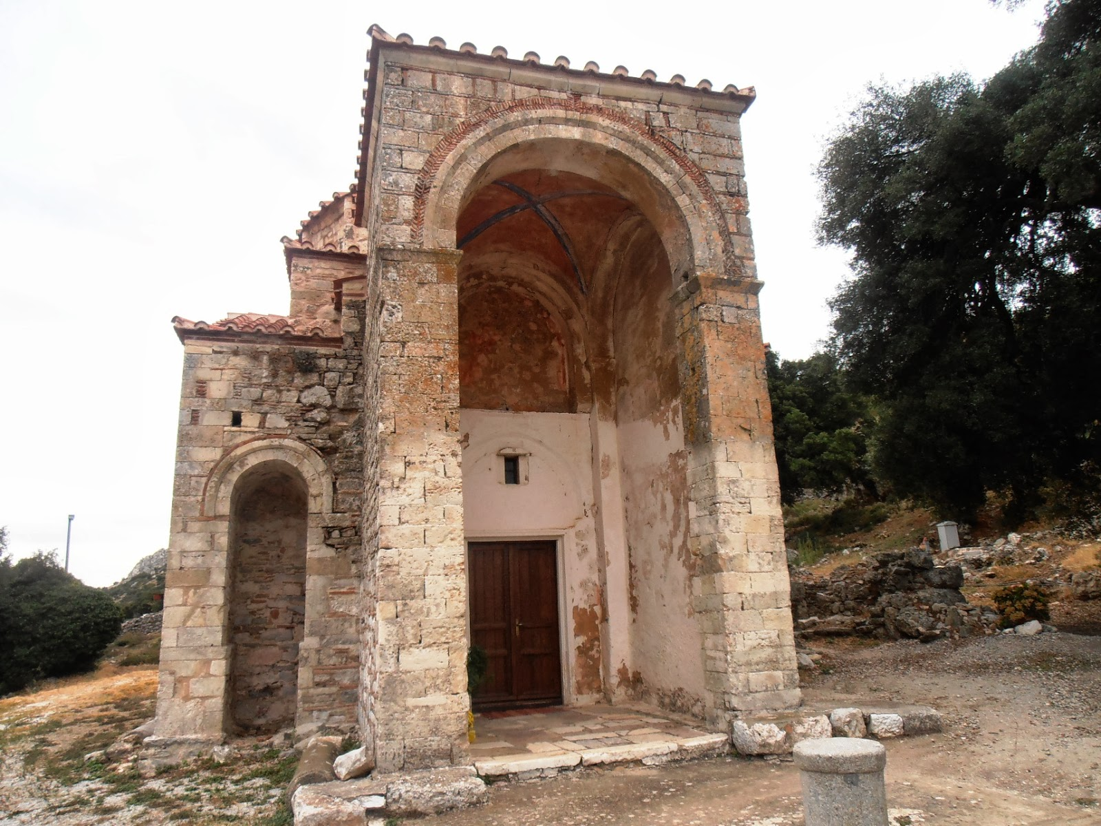 abandoned monastery of Zoothohos Pigi at Pyli Dervenochorion